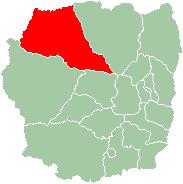 Location map of Fenoarivobe region in Antananarivo province.